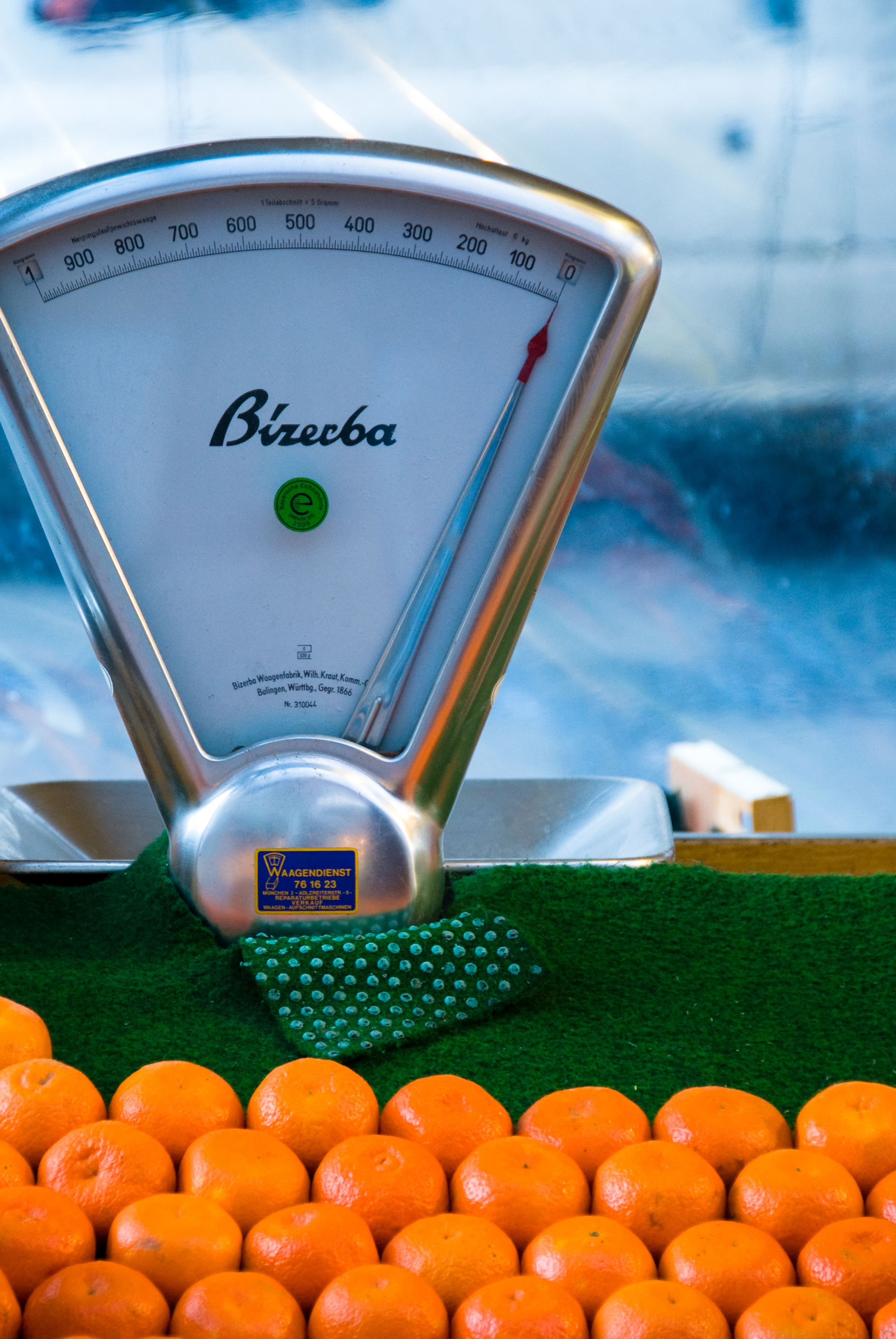 Bizerba scales